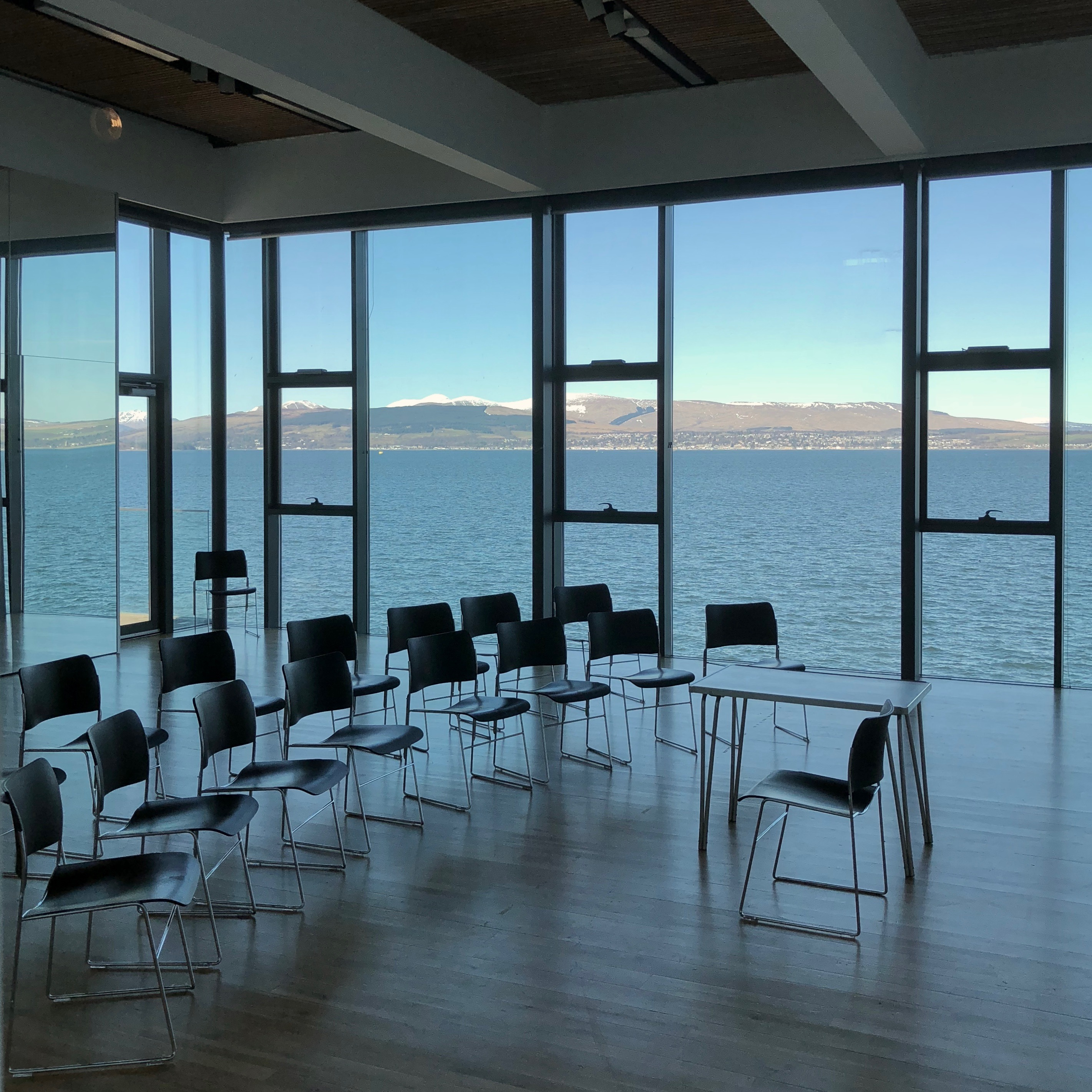 Part of one of the rooms in the first floor Gallery Suite of the Beacon Arts Centre, looking out onto Customhouse Quay on the waterfront of Greenock in Scotland.